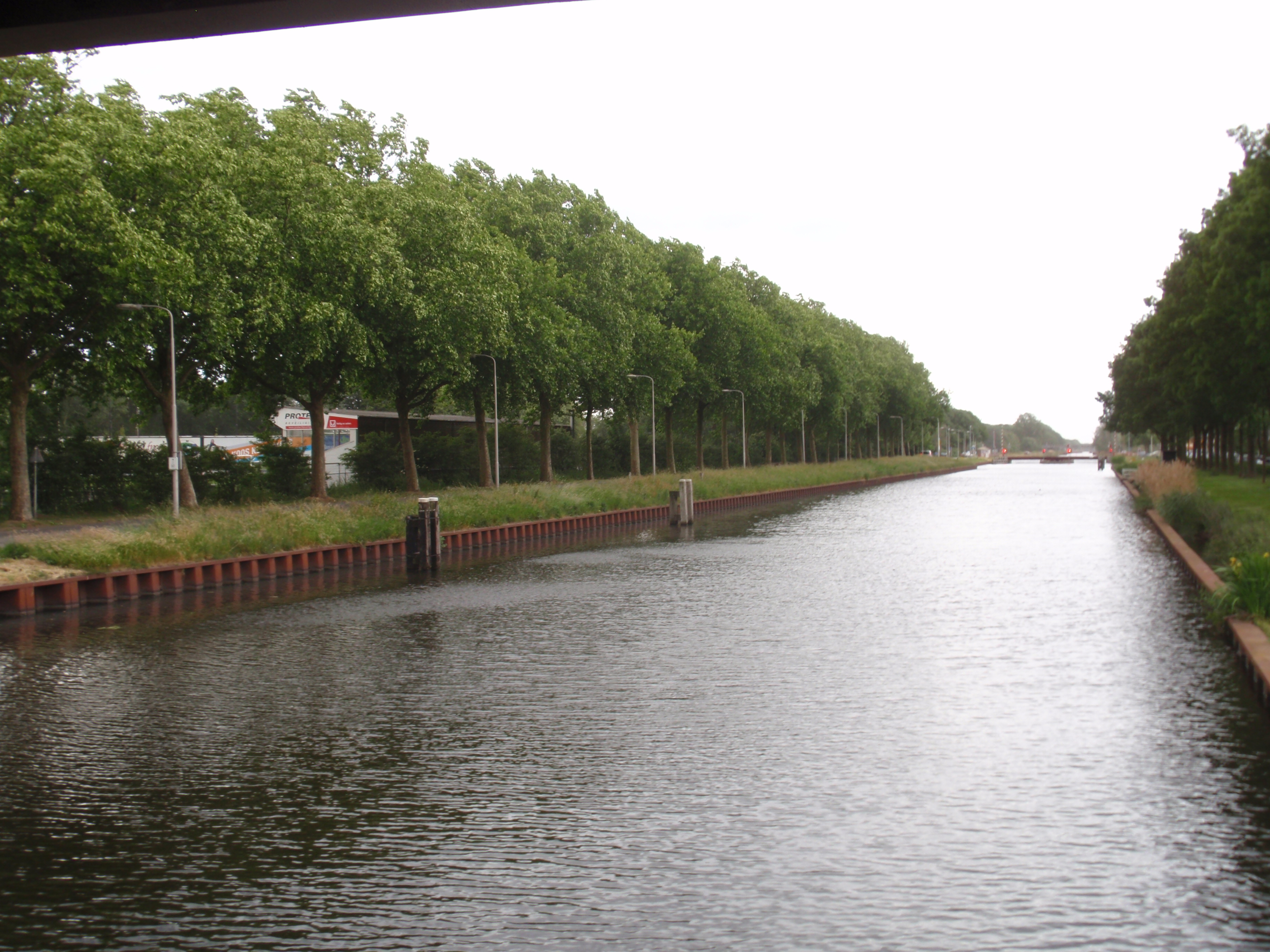 Wilhelmina Canal. In Tilburg, according to original description. Local knowledge makes me doubtful.